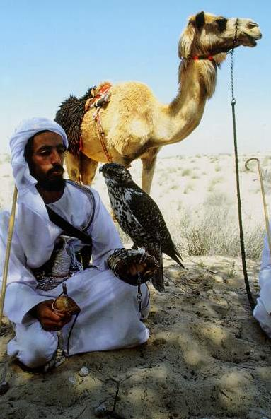 Bedouin man